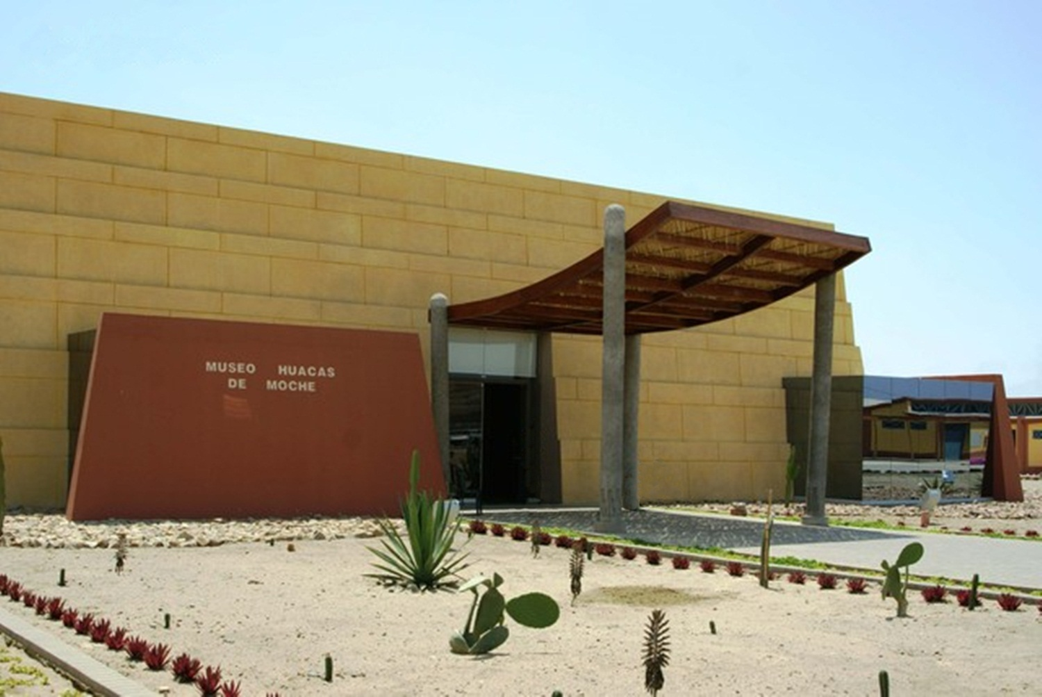 Museo Huacas de Moche